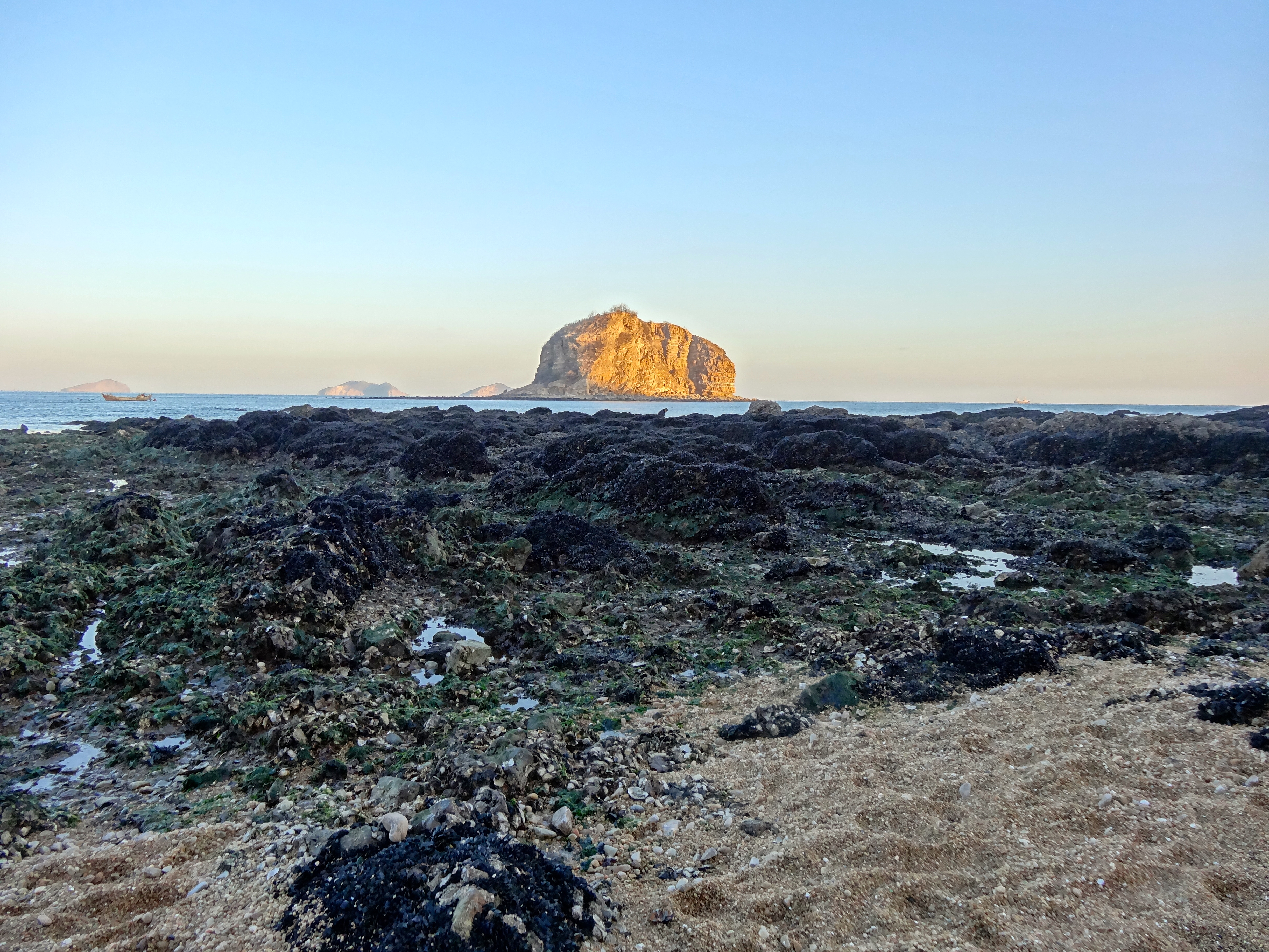 Mussels at Bangchuidao Island, Dalian, China